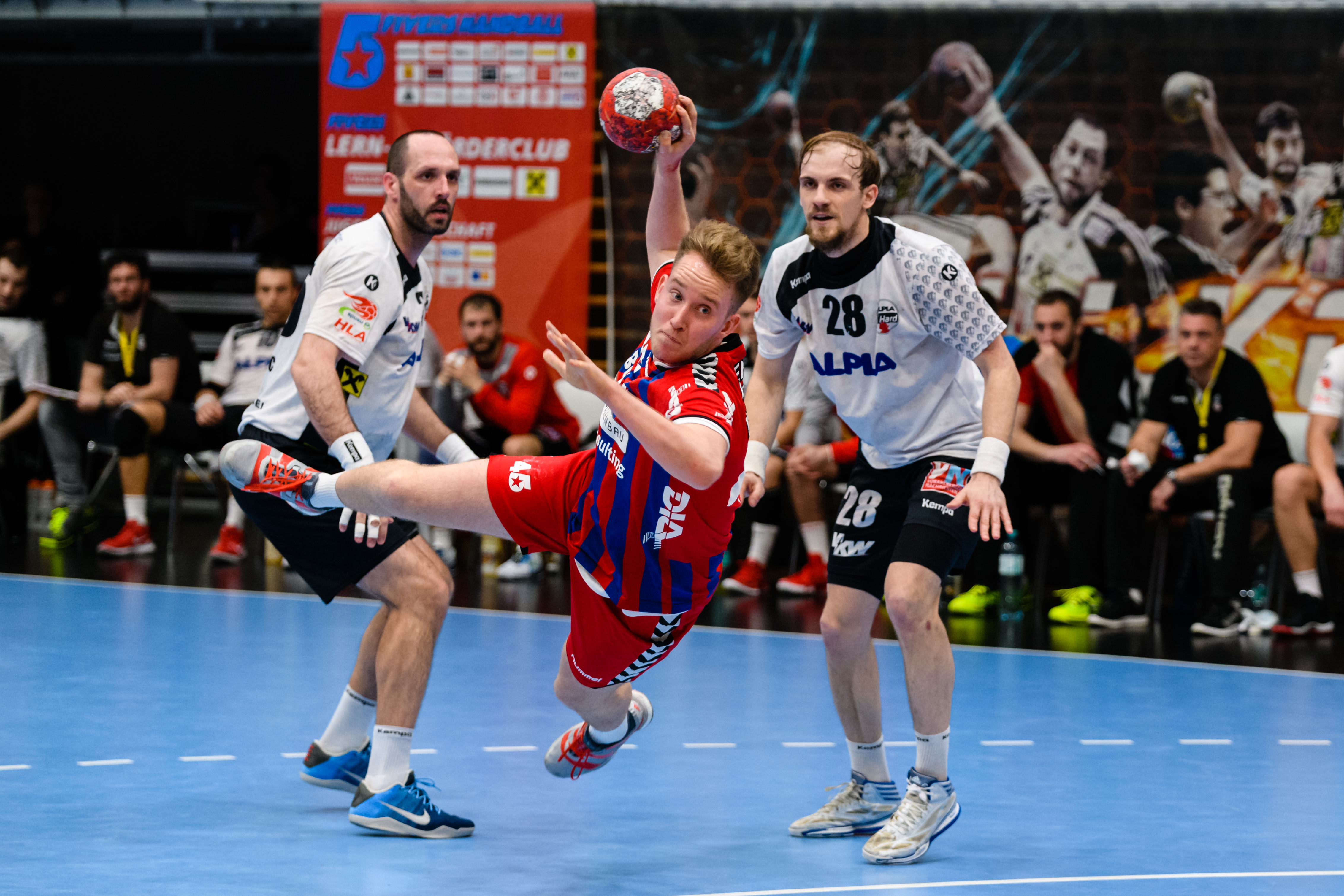 OEHB Cup 2018 Semi Finals, HBA Fivers Margareten vs. Alpla Hard 2018/03/30. Picture shows Domagoj Surać (Hard), Maximilian Nicolussi (Fivers), Gerald Zeiner (Hard)